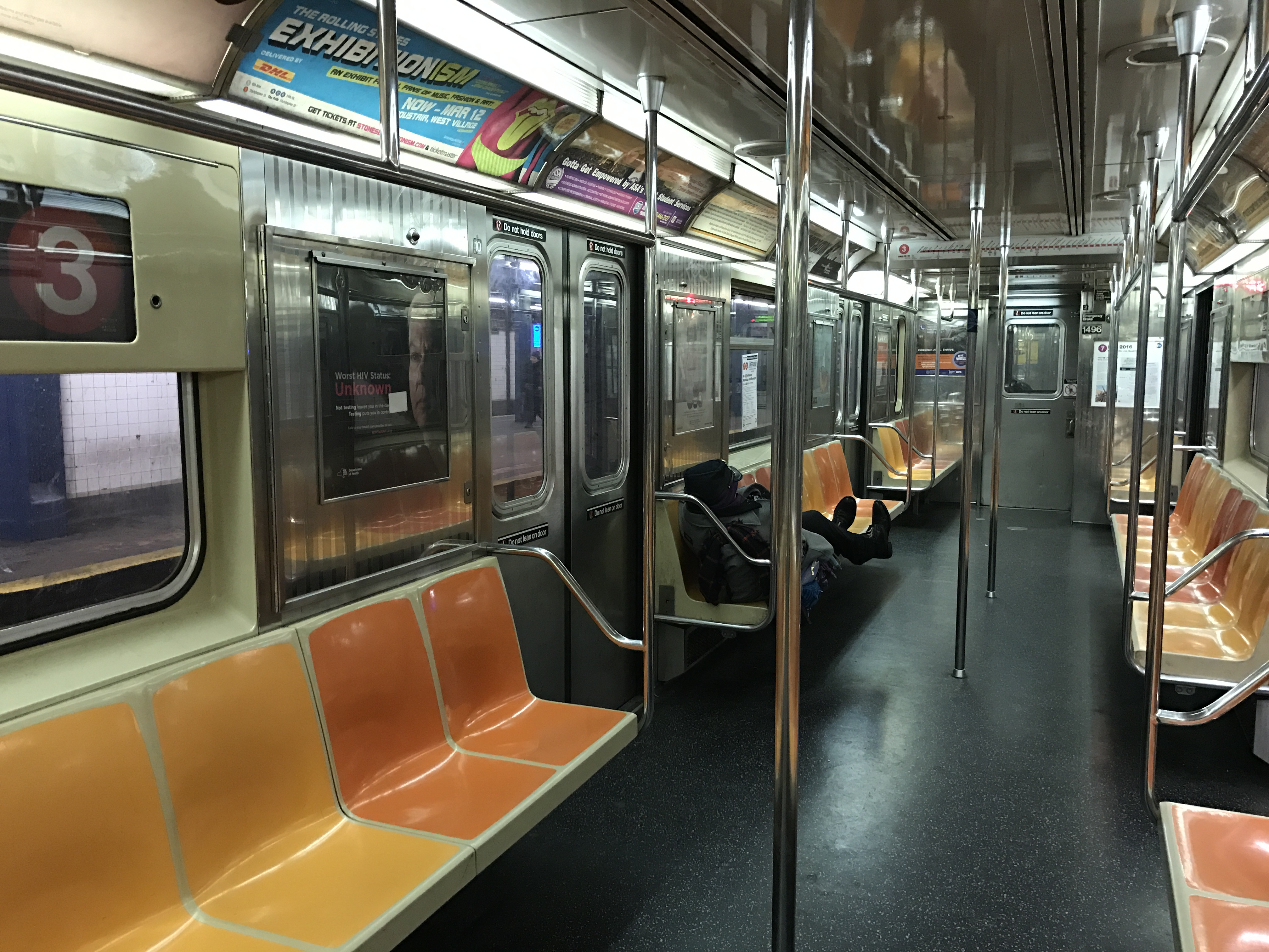 The interior of an R62 subway car. Taken with an iPhone 7.